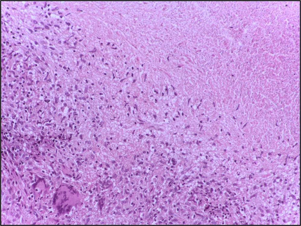 Caseating granulomatous lesion with areas of amorphous granular eosinophilic necrotic debris known as caseation (on the right half) bordered by collections of epitheloid cells, Langhan giant cells and lymphocytes. [H&E stain 40X]